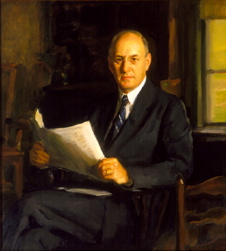 Henry Morgenthau, Jr., painting by David Silvette